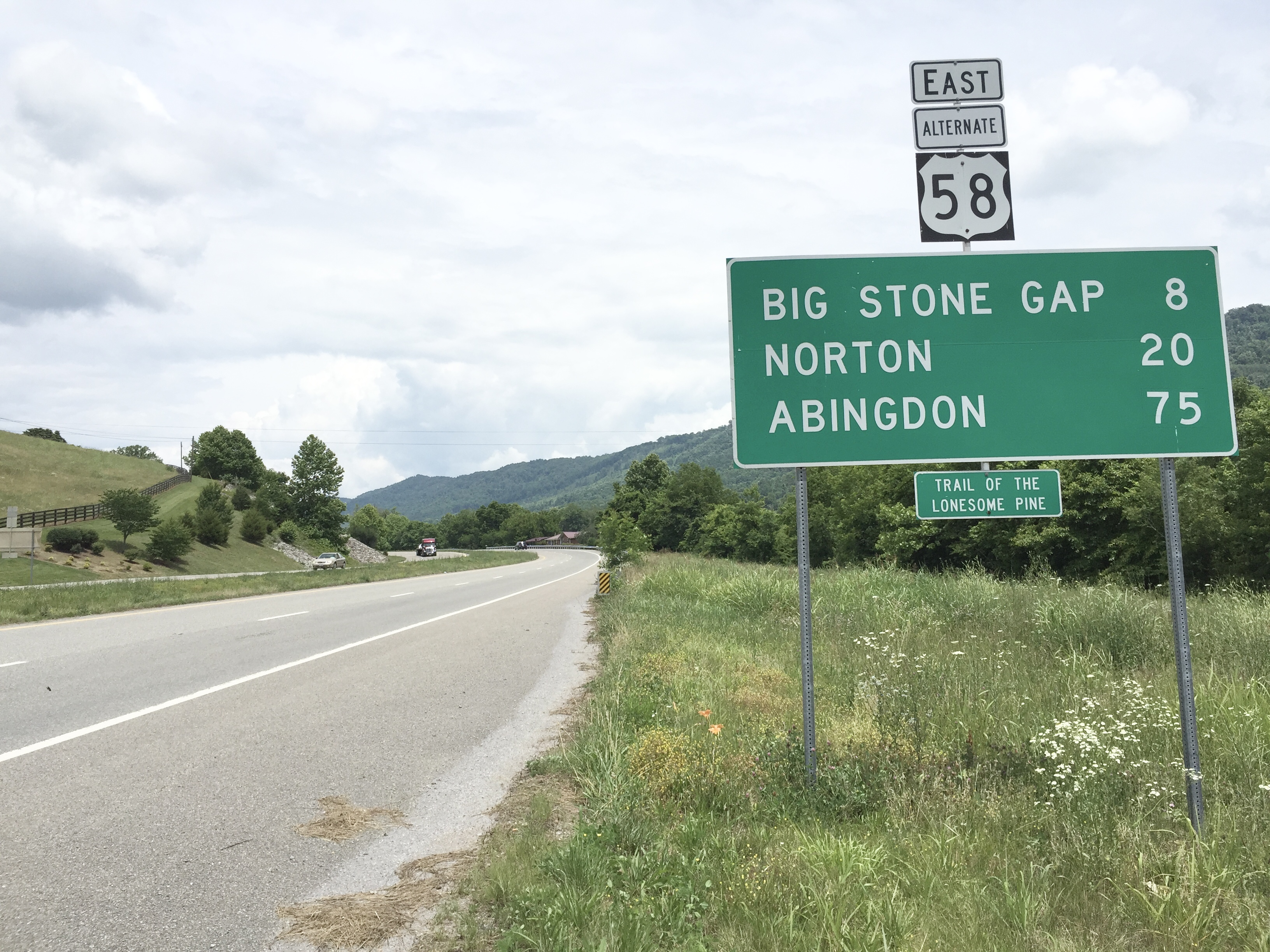 View east along U.S. Route 58 Alternate (Trail of the Lonesome Pine) between Ed Ward Drive and Steve Reasor Drive in Deep Springs, Lee County, Virginia